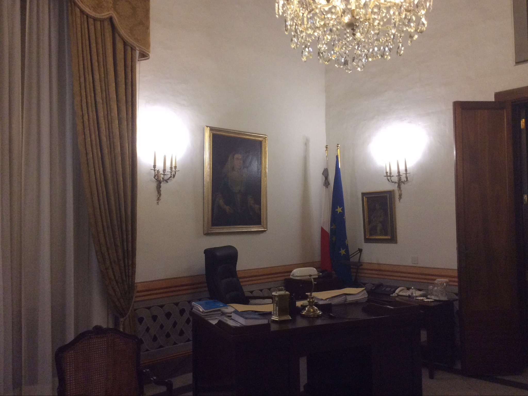 Maltese Minister of foreign affairs office